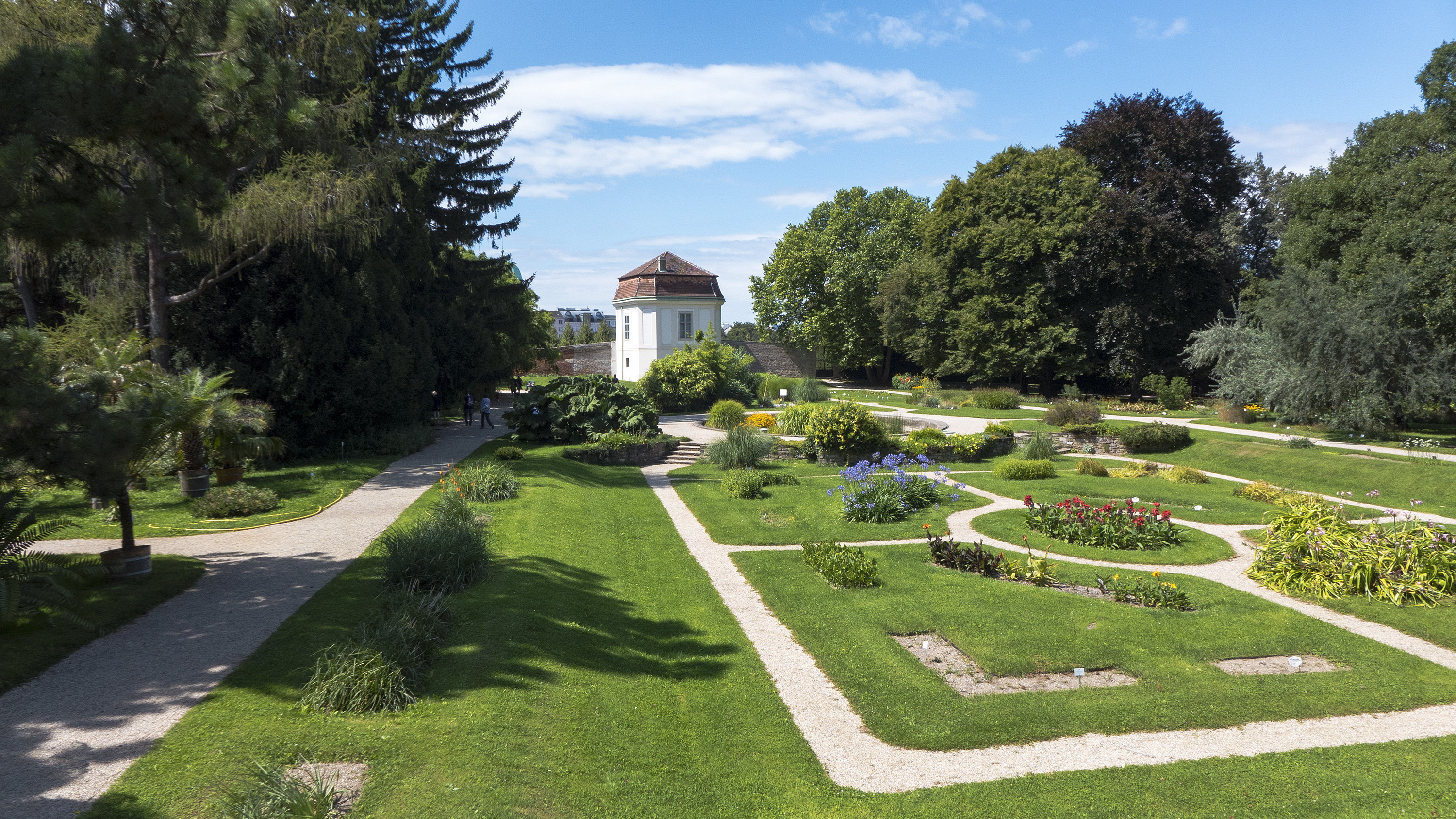 Botanical Garden of the University of Vienna in Vienna 3